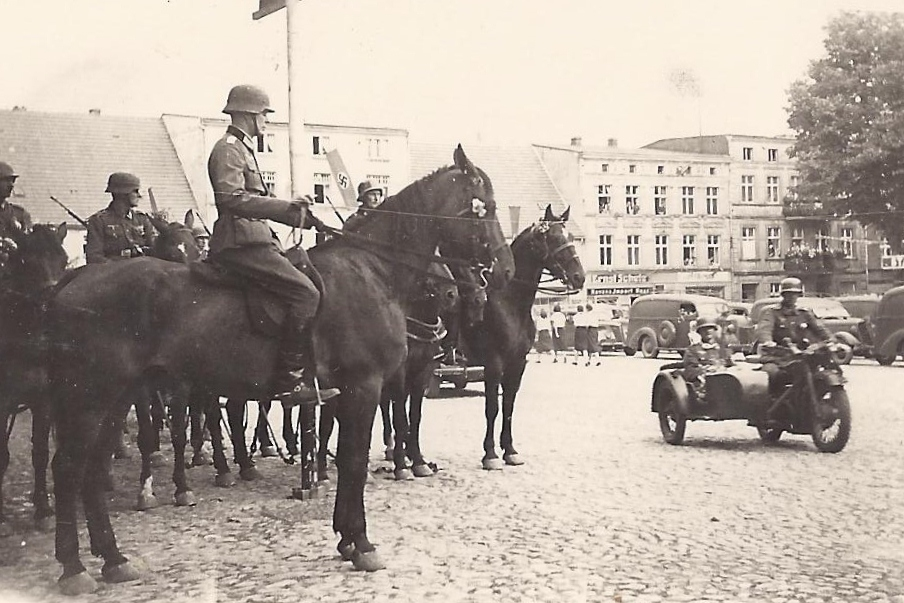 Wehrmacht in Tempelburg (1939)